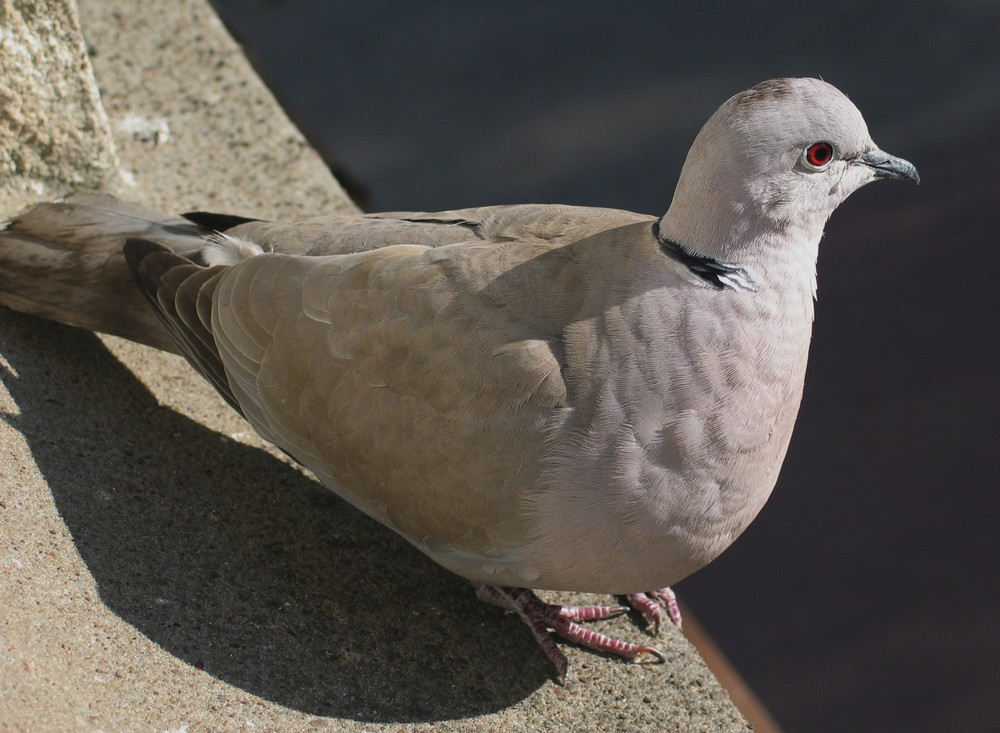 (Streptopelia decaocto); released in 2005 by author M. Betley